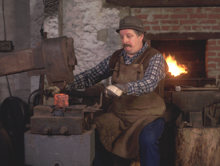 Manfred Sachse